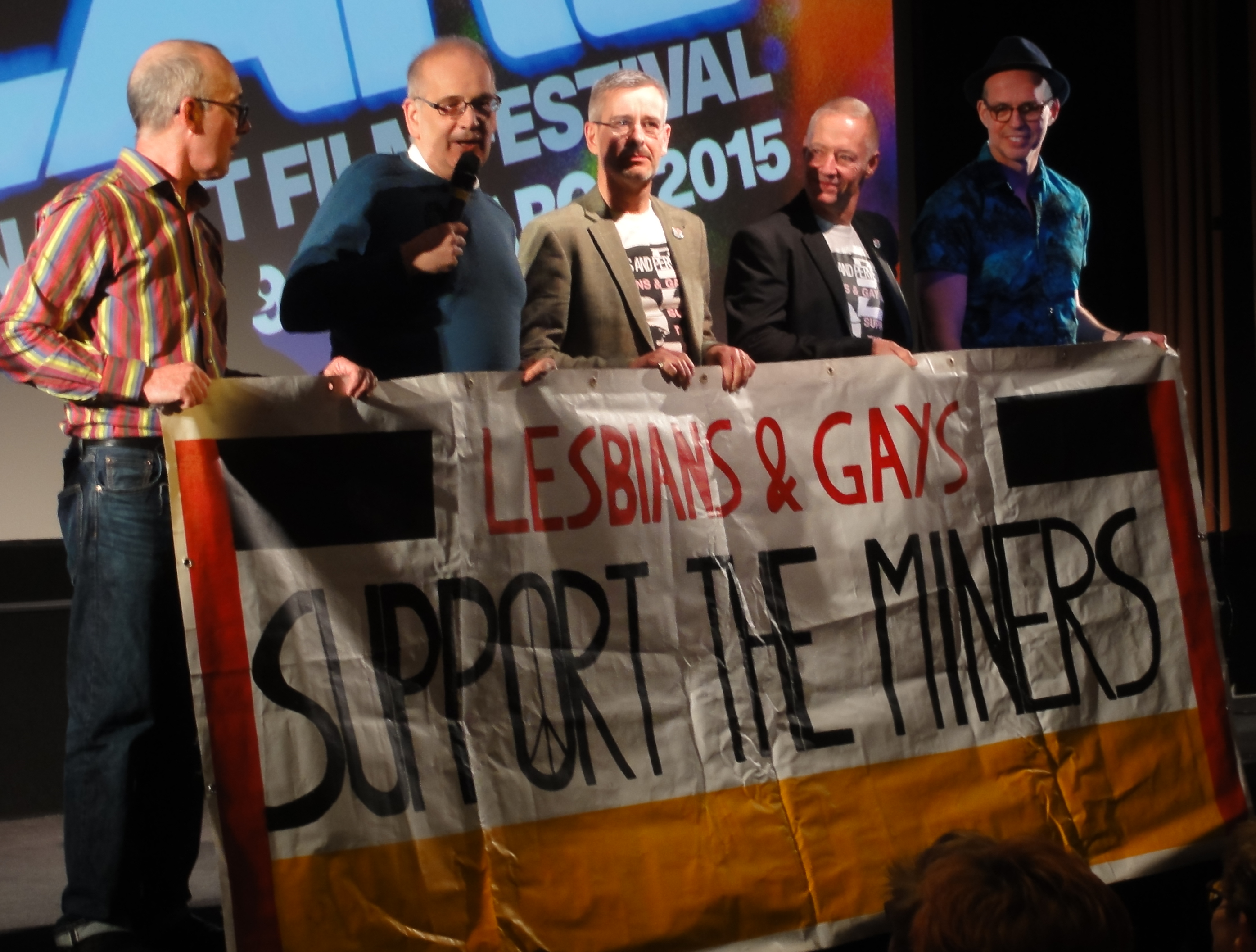 LGSM members for a Q&A after a showing of Pride.